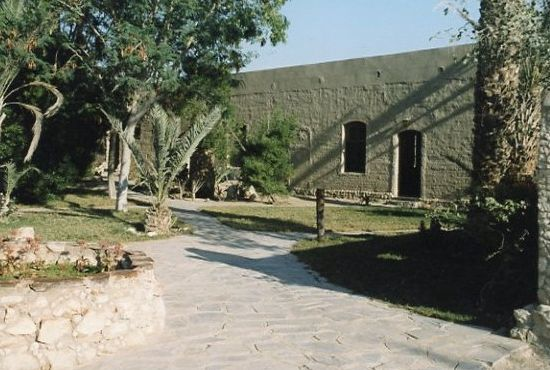 The inside of the fort